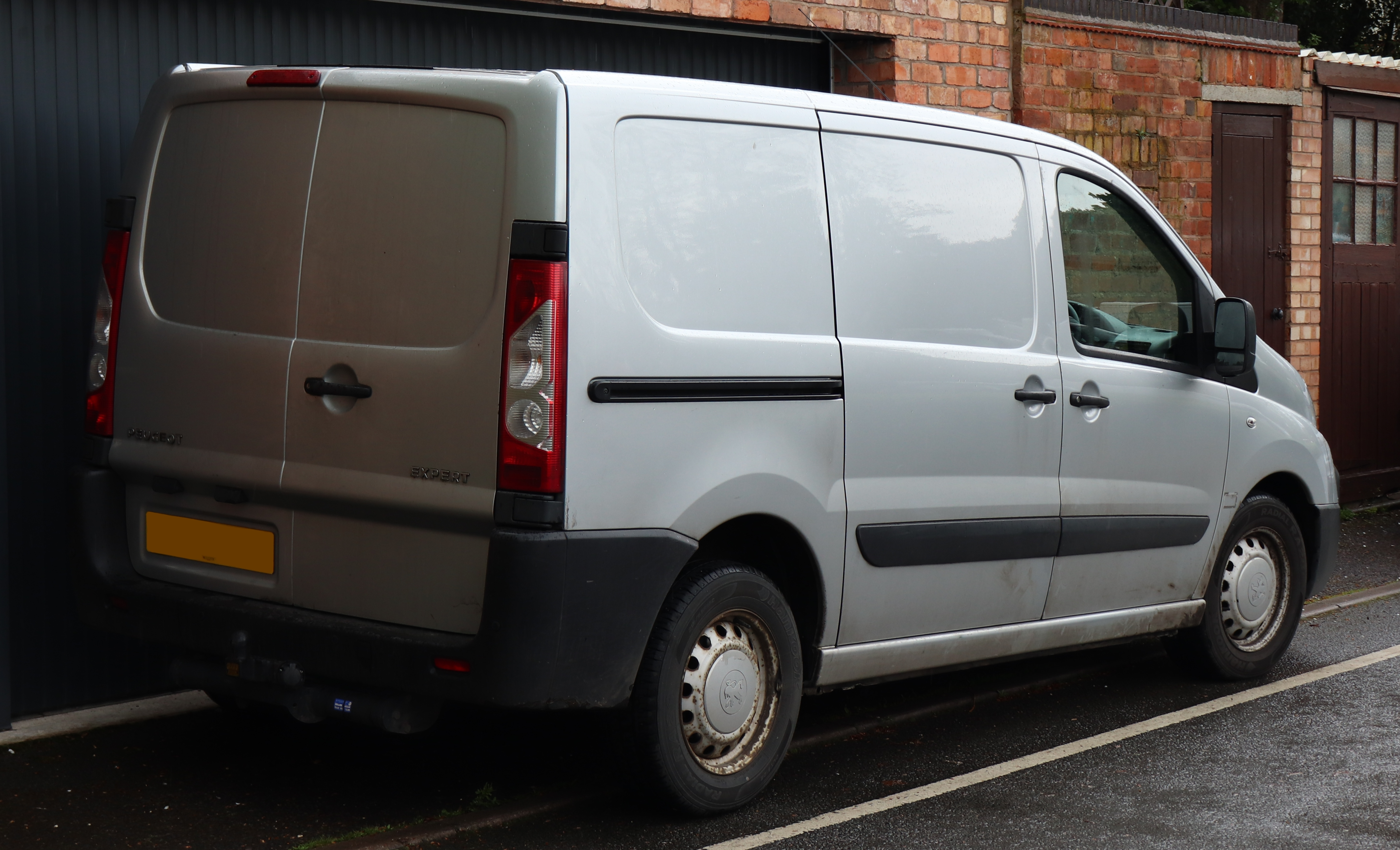 2011 Peugeot Expert Professional HDi 2.0 Rear Taken in Leamington Spa